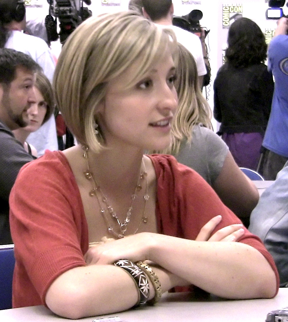 Allison Mack - Comic-Con 2009 - Smallville - San Diego, Calif. - July 26, 2009